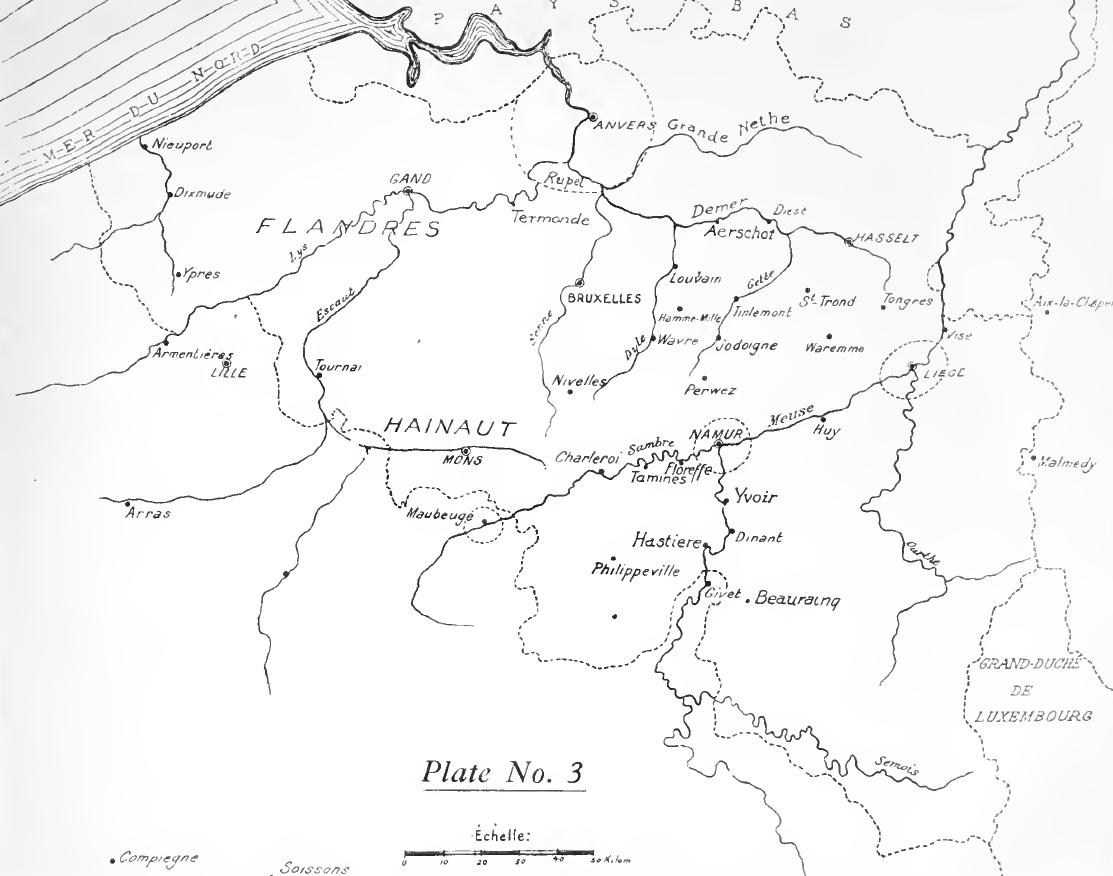 Map of area of Belgian field army deployment, August 1914